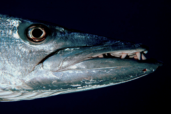 Great Barracuda (Sphyraena barracuda close-up, western Puerto Rico. Image taken by Clark Anderson/Aquaimaages.